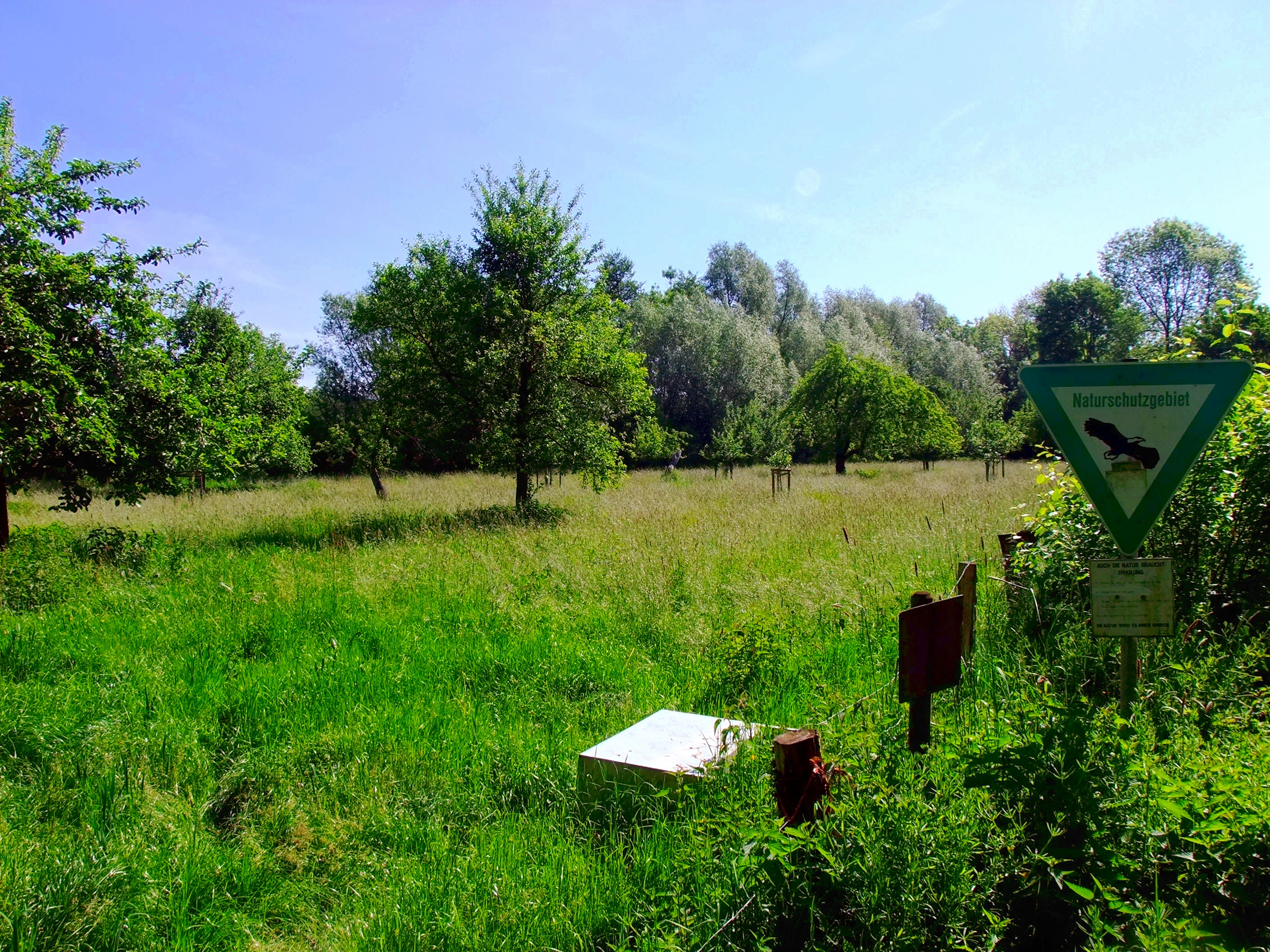 Nature reserve Begatal (LIP-036), Lemgo, District Lippe, Region Detmold, North Rhine-Westphalia, Germany